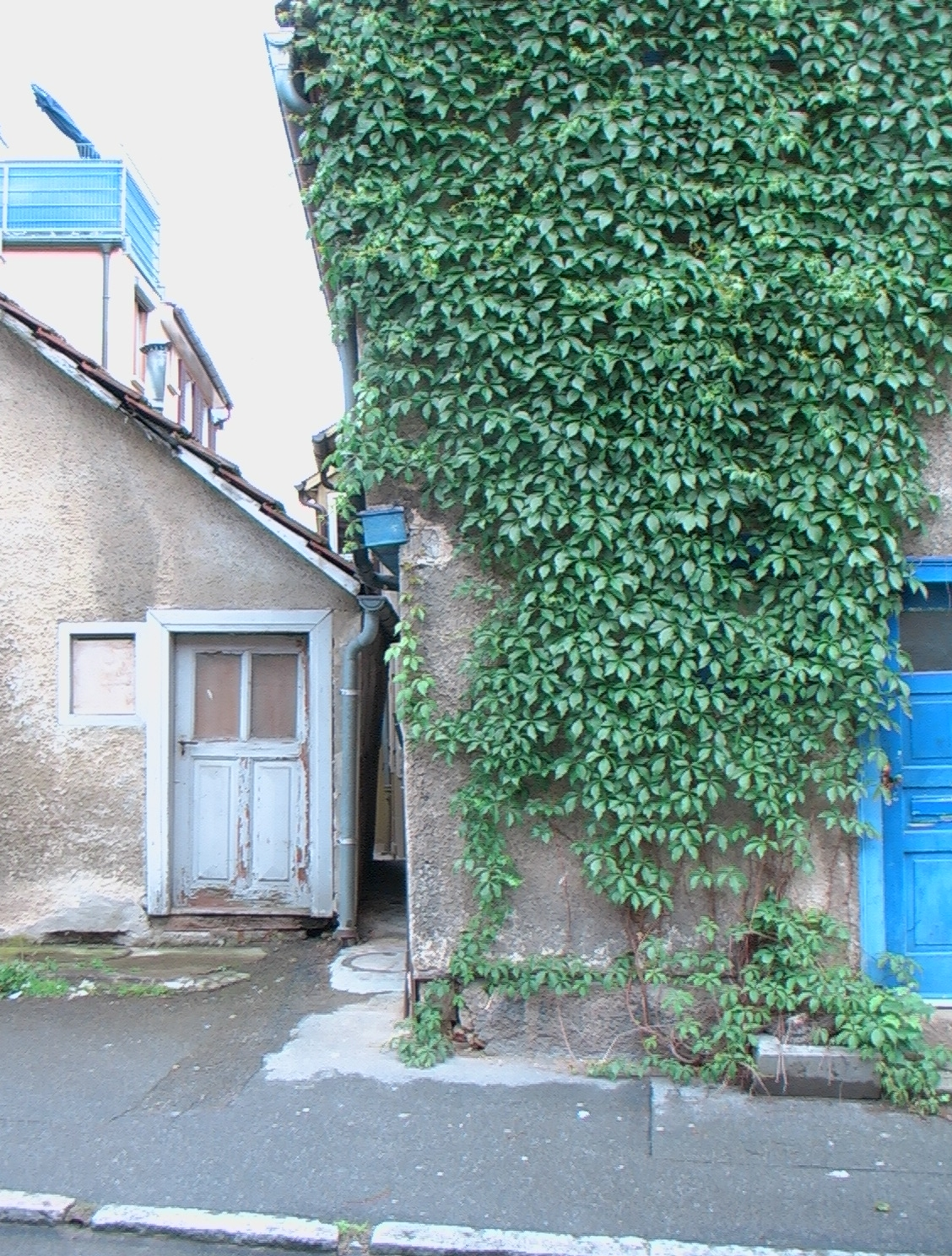 Spreuerhofstraße in Reutlingen, Germany, is registered in the Guinness Book of World Records as the "Narrowest Street In The World"; width = 1 ft.